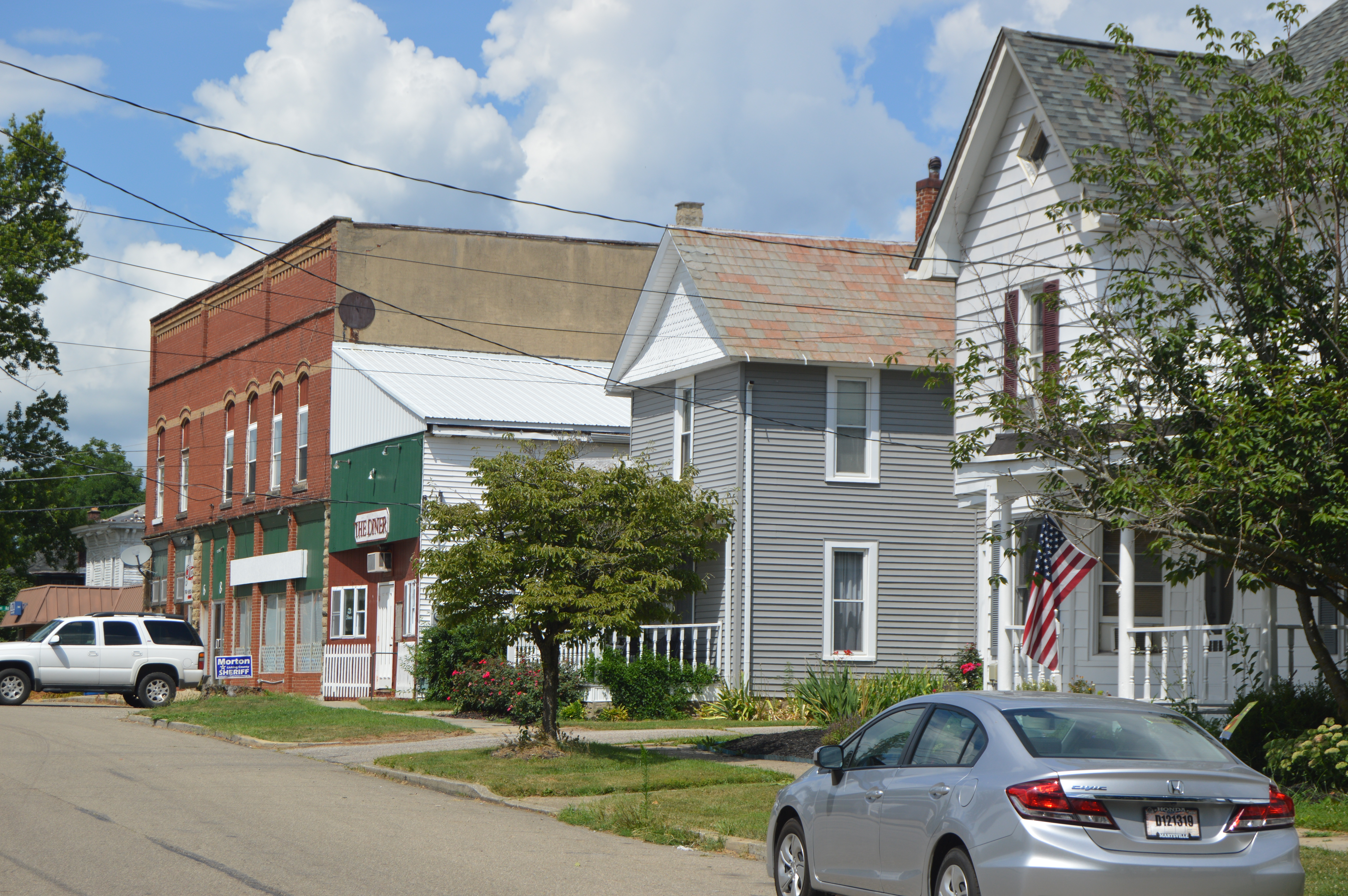 Buildings on the eastern side of S. Main Street, just south of the public square, in Hartford, Ohio, United States.